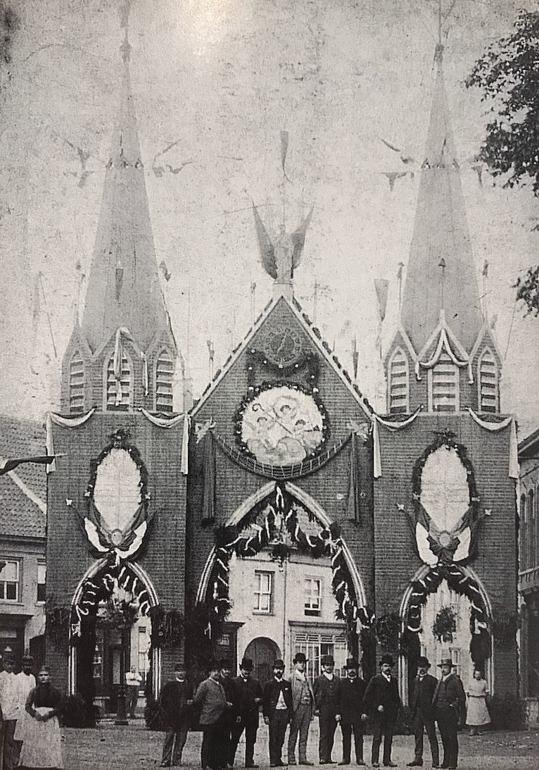 A triumphal arch modeled after the Heuvelse kerk in Tilburg for the celebrations around the consecration of that church.